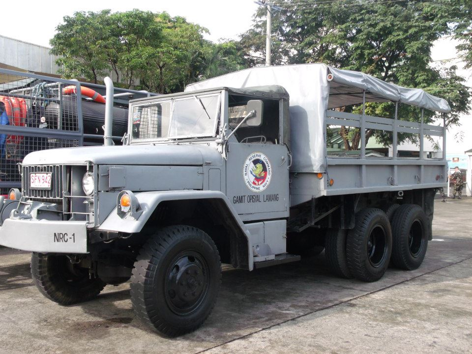 M35 (6X6) Truck of the Naval Reserve Command.